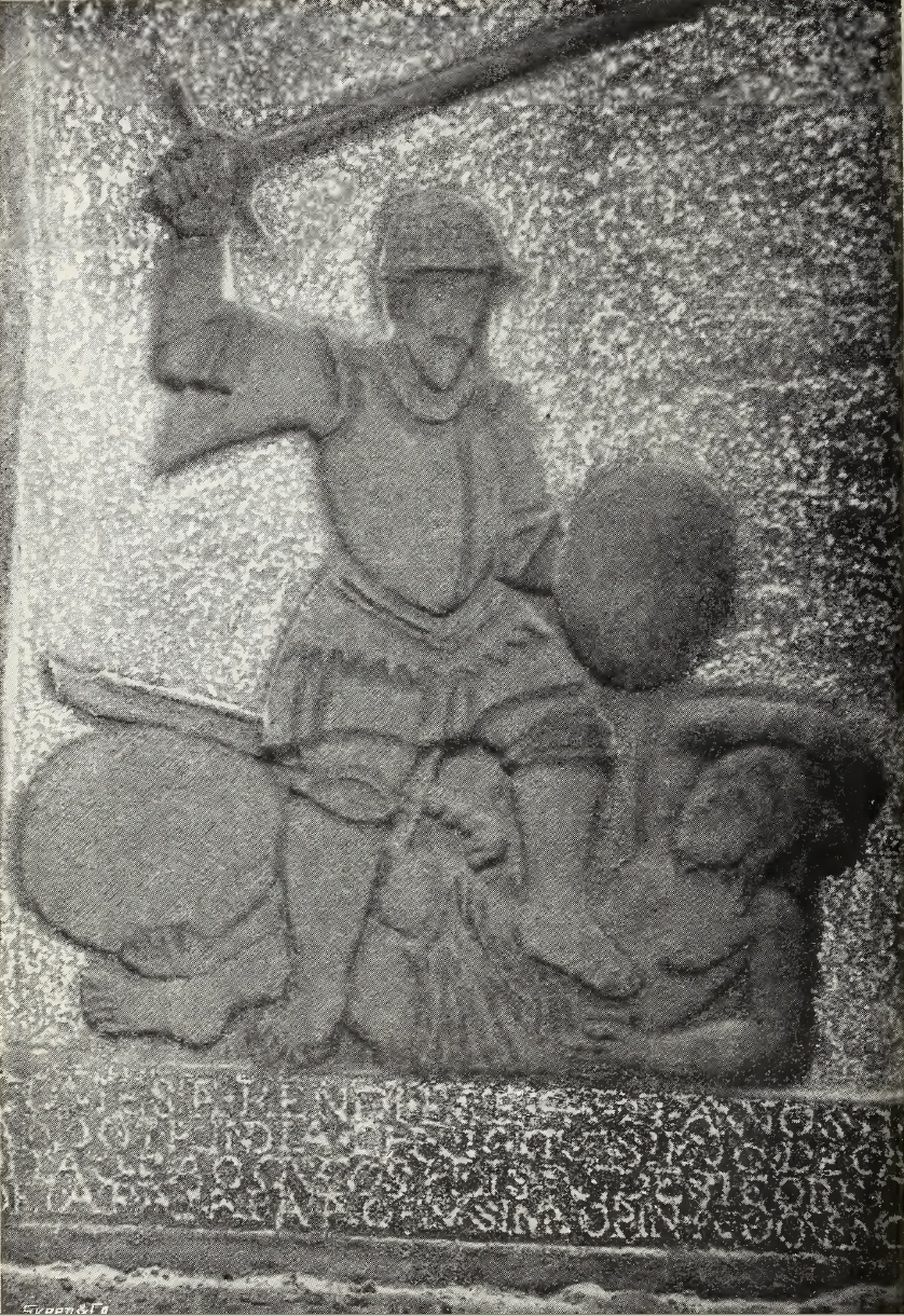 "Ethirimana Cinkam saves by a Portuguese soilder", a mural from Maha Saman Devalaya.